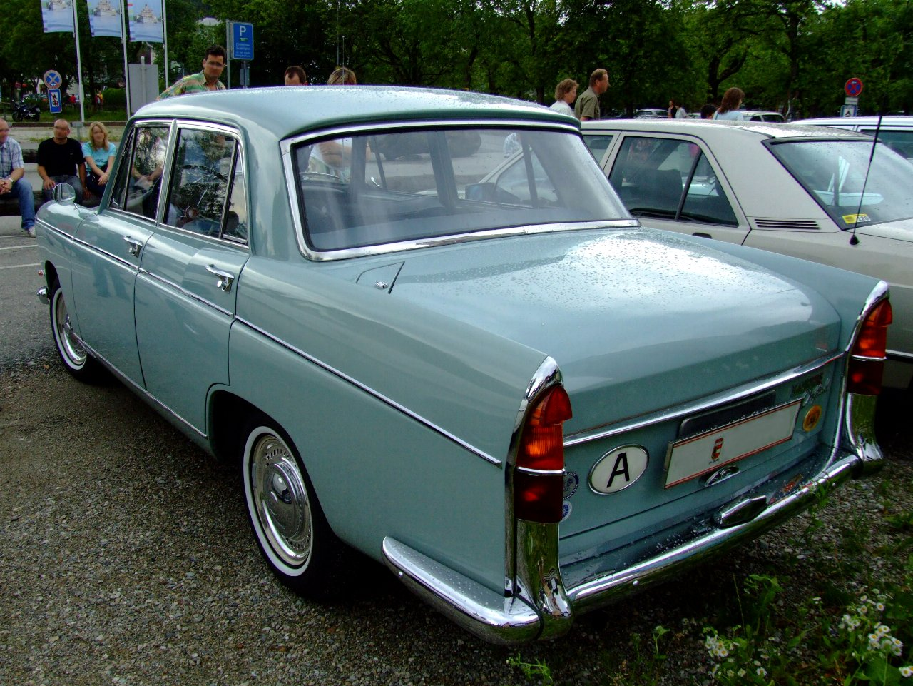 Summary Quelle: selbst fotografiert, 06/2006 Fotograf: Späth Chr.